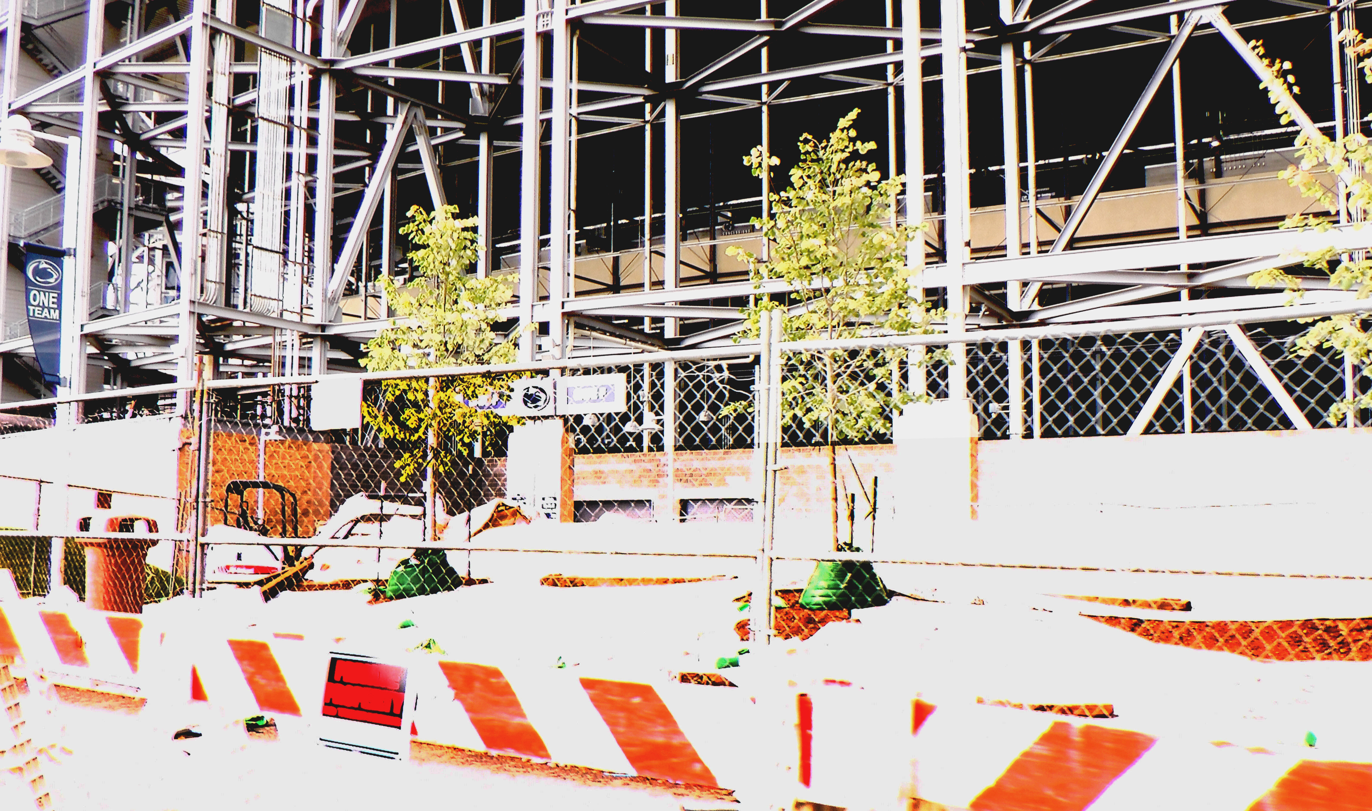 The location where the statue of Joe Paterno previously stood. When this picture was taken at 9:00am on July 27, 2012, crews were using excavators to plant trees and fill in a parking lane where the statue once stood.